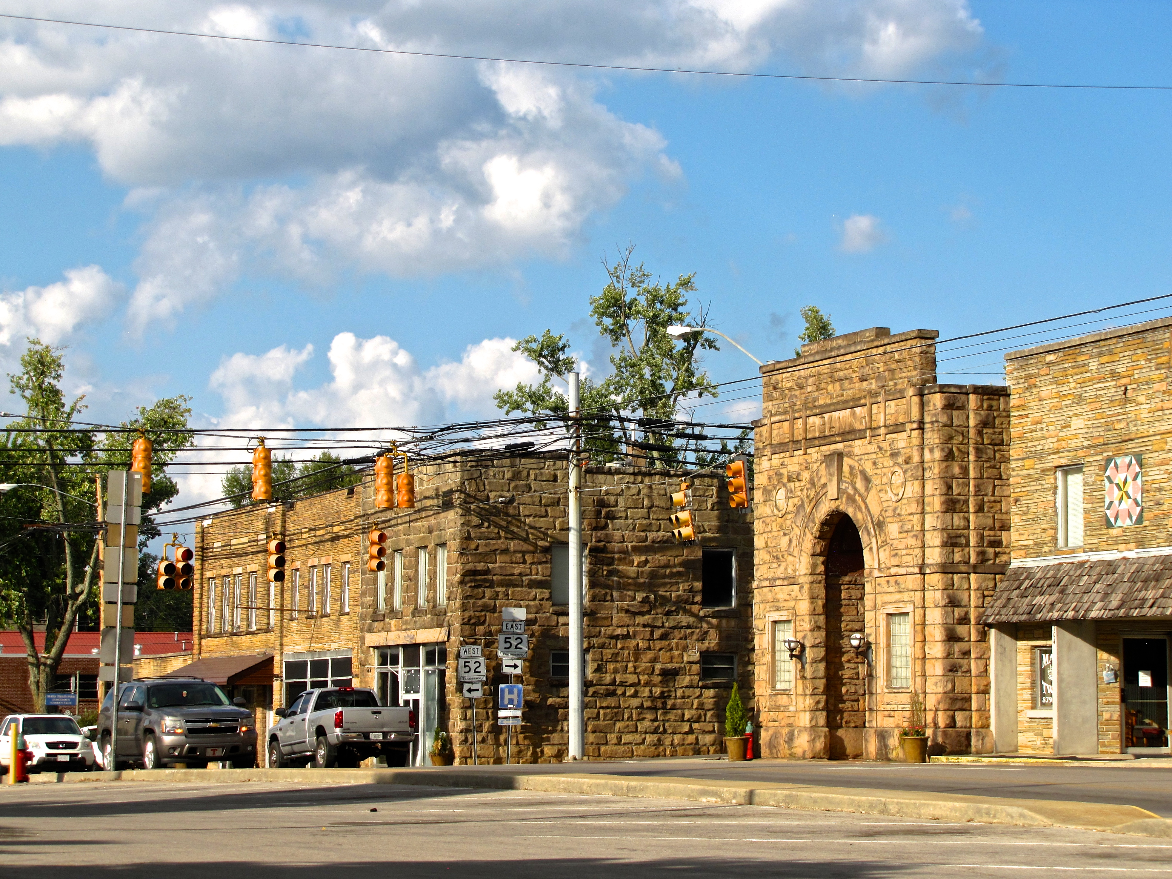 Buildings at the intersection of Central Avenue (State Route 52) and Main Street in Jamestown, Tennessee, United States.